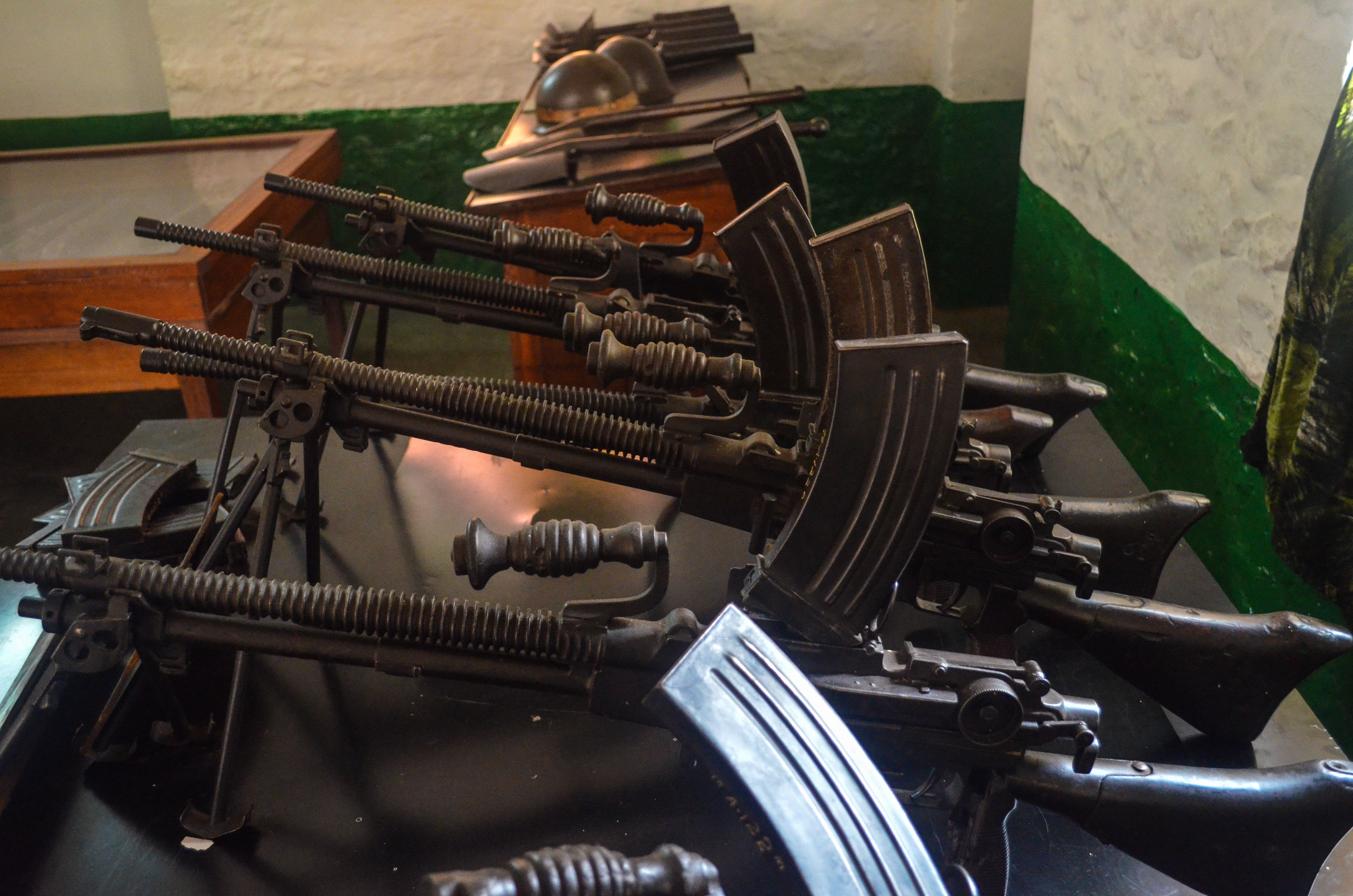 Ghana Army Historic Automatic Firearm and M16 Rifles at the Ghana Armed Forces (GAF) Museum in Kumasi, Ashanti Region, Ghana.